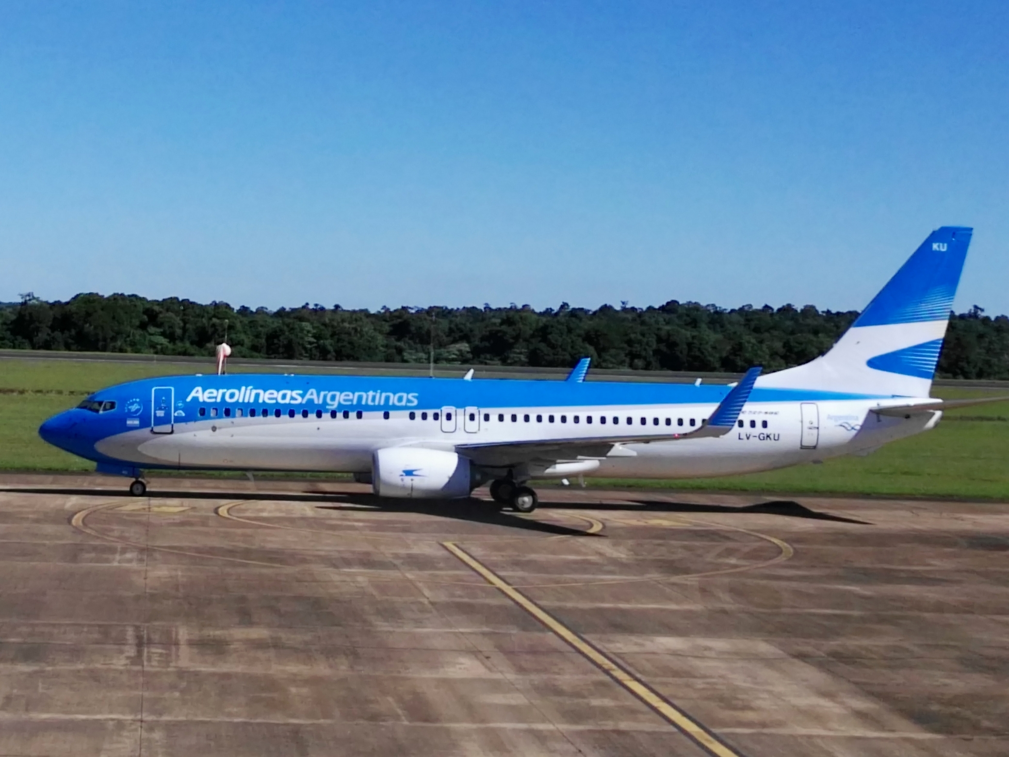 An Aerolíneas Argentinas Boeing 737-800 at Iguazú Airport (IGR / SARI)